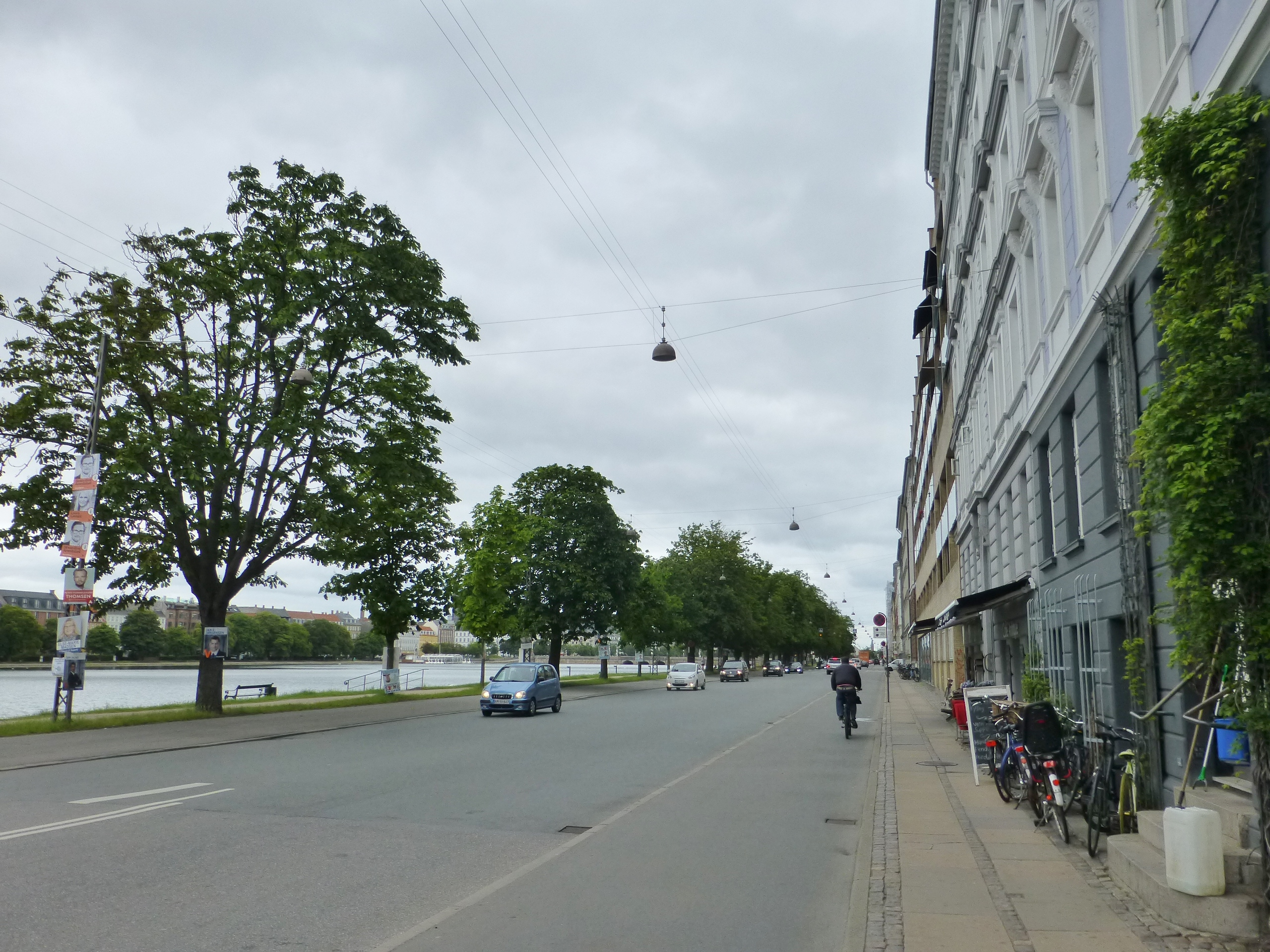 The street Nørre Søgade in Indre By in Copenhagen.